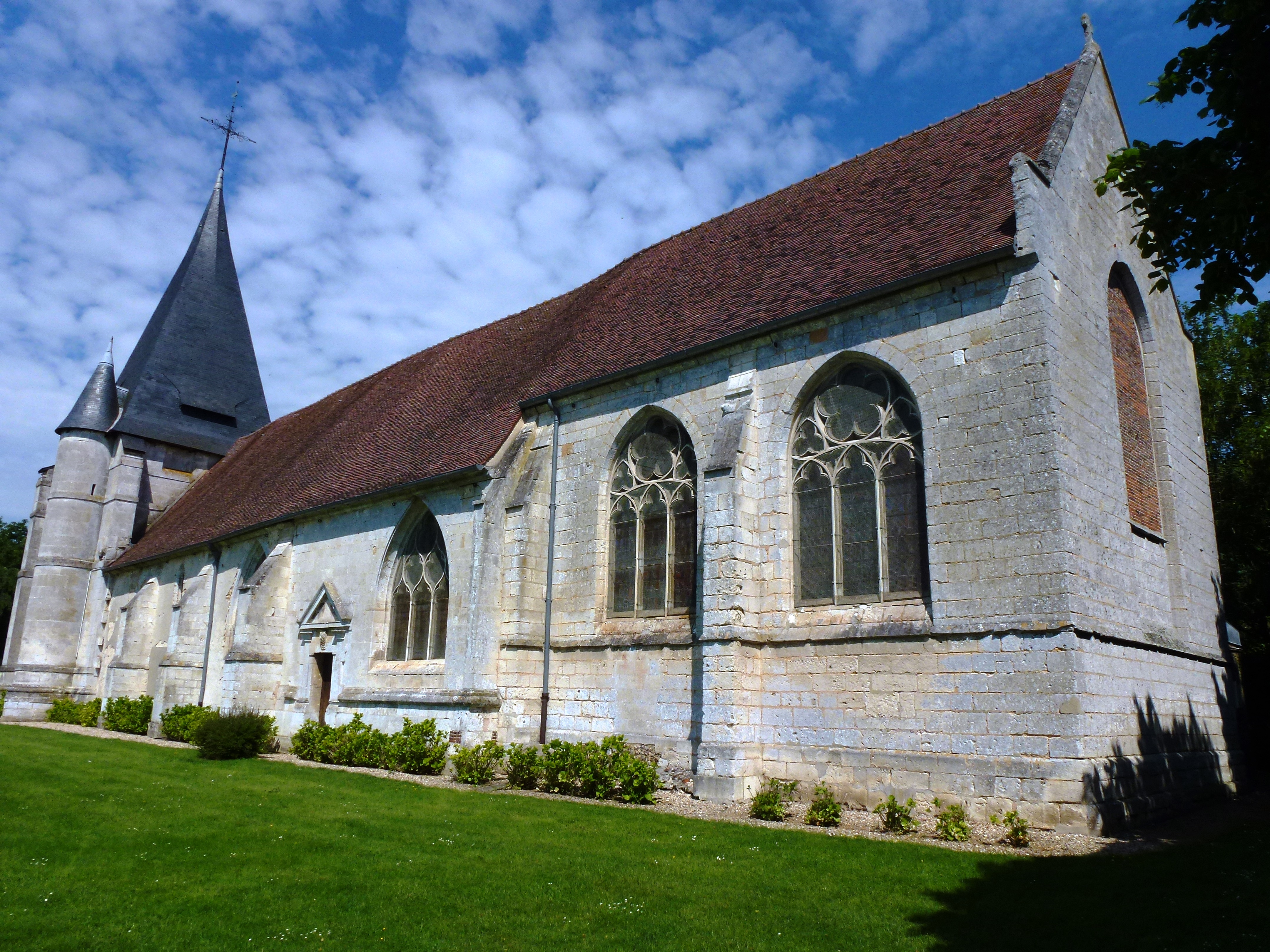 Goupillières (Eure, Fr) église Notre-Dame